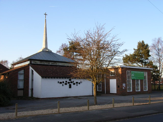 Old Dean Original description: St Martin's, Old Dean, Camberley